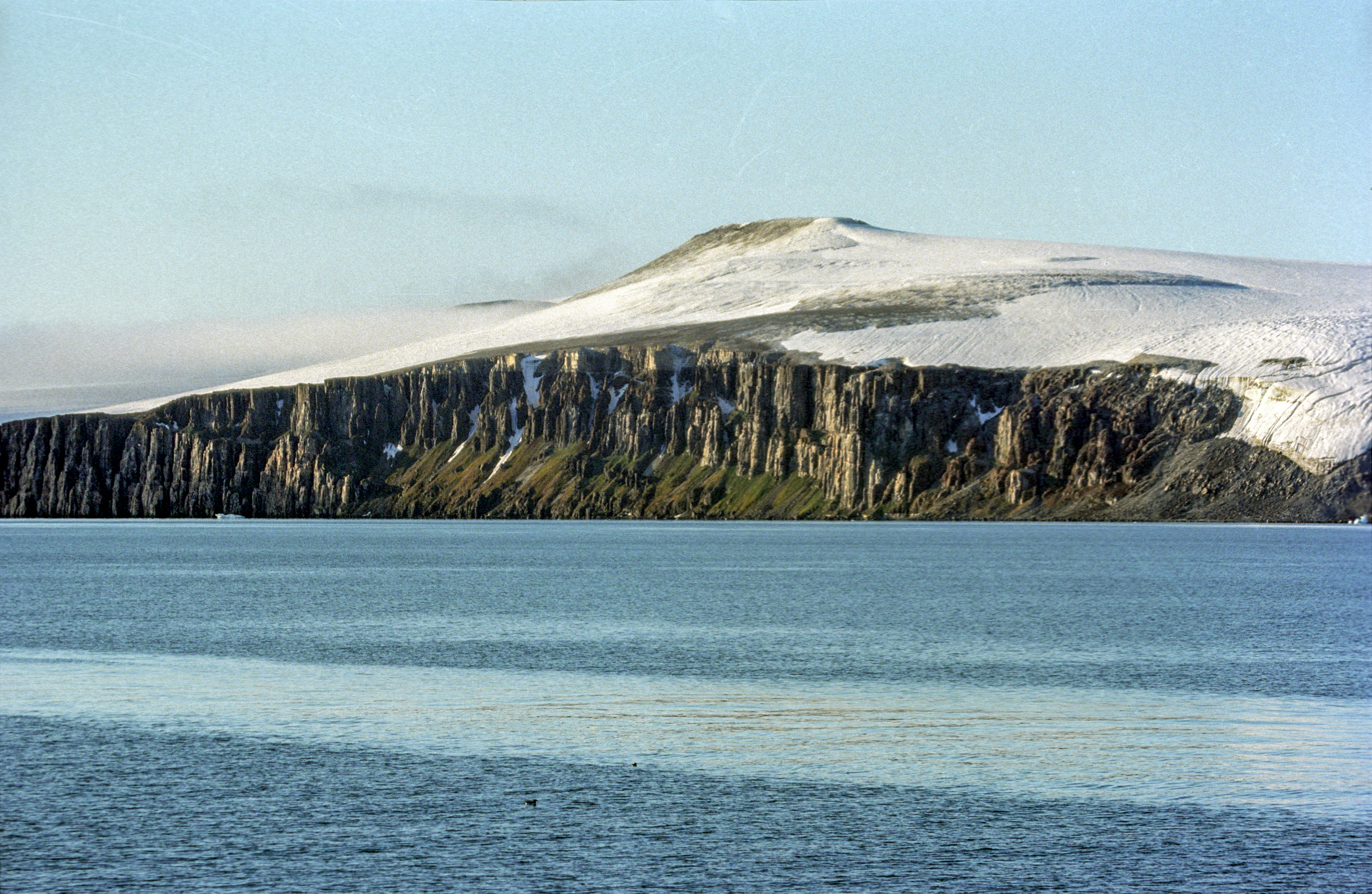 Kapp Fanshawe, northern tip of Lomfjordhalvøya, peninsula between Hinlopen Strait and Lomfjord, Spitzsbergen (79°37′20″N 18°15′34″E)